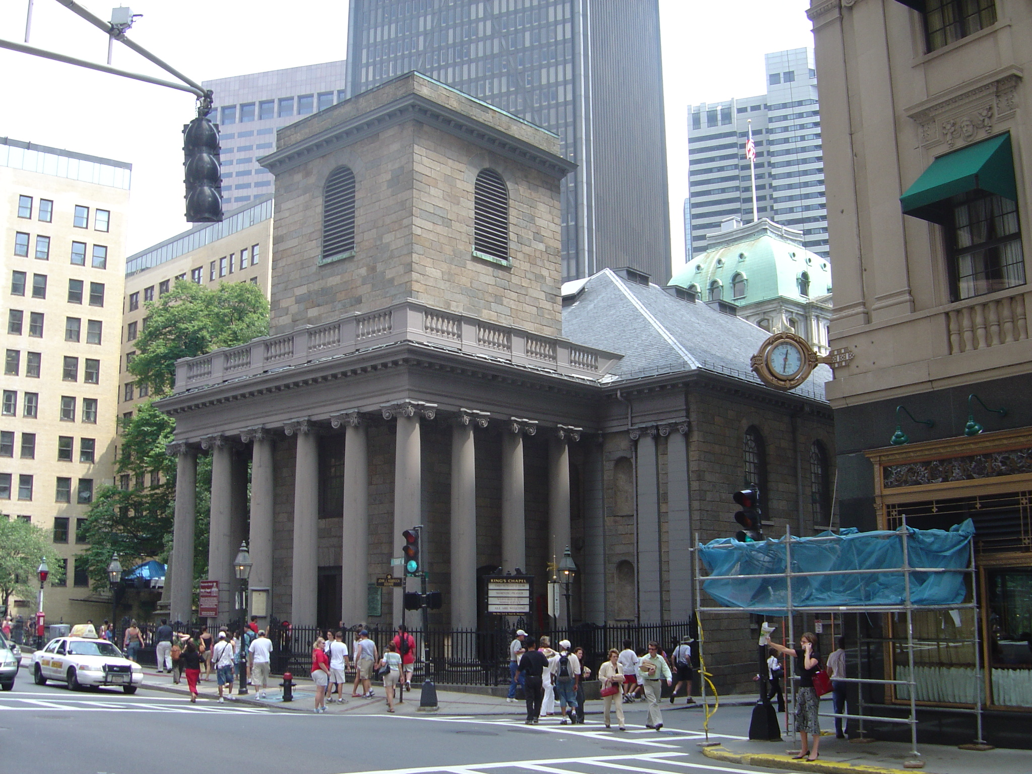 King's Chapel, Boston, MA Photograph taken by me with a Sony Cybershot Digital camera, July 2006.